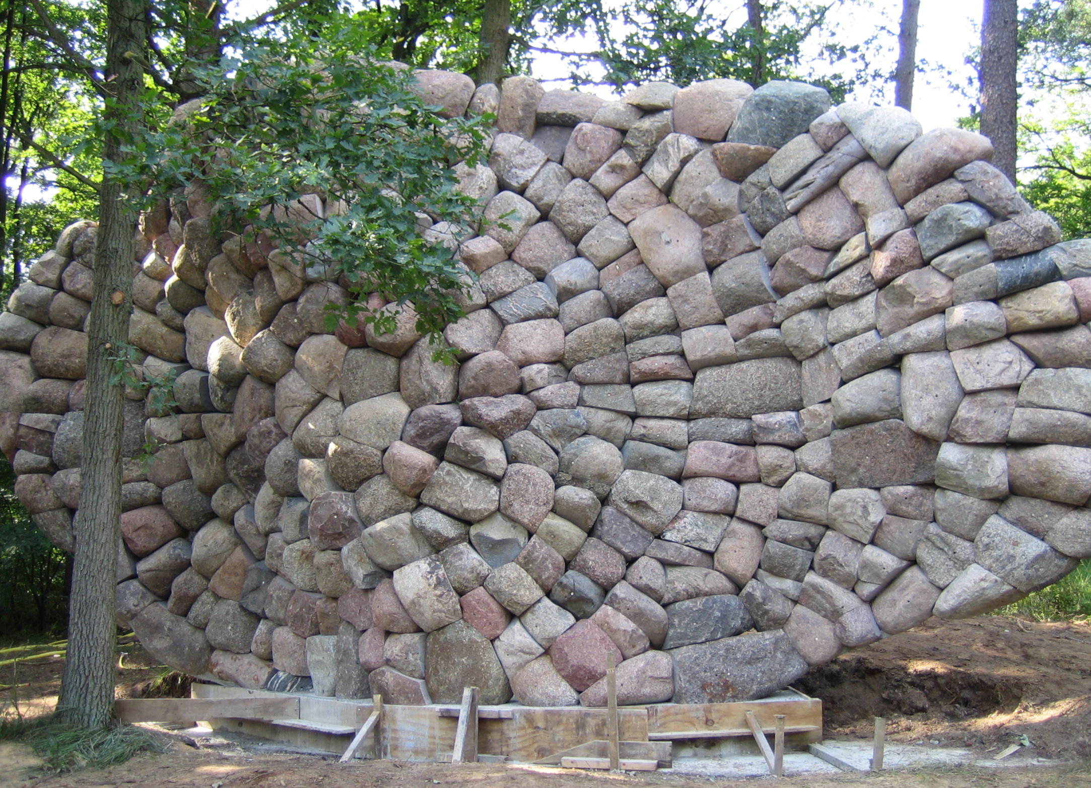 sculpture by Chris Booth in The Netherlands